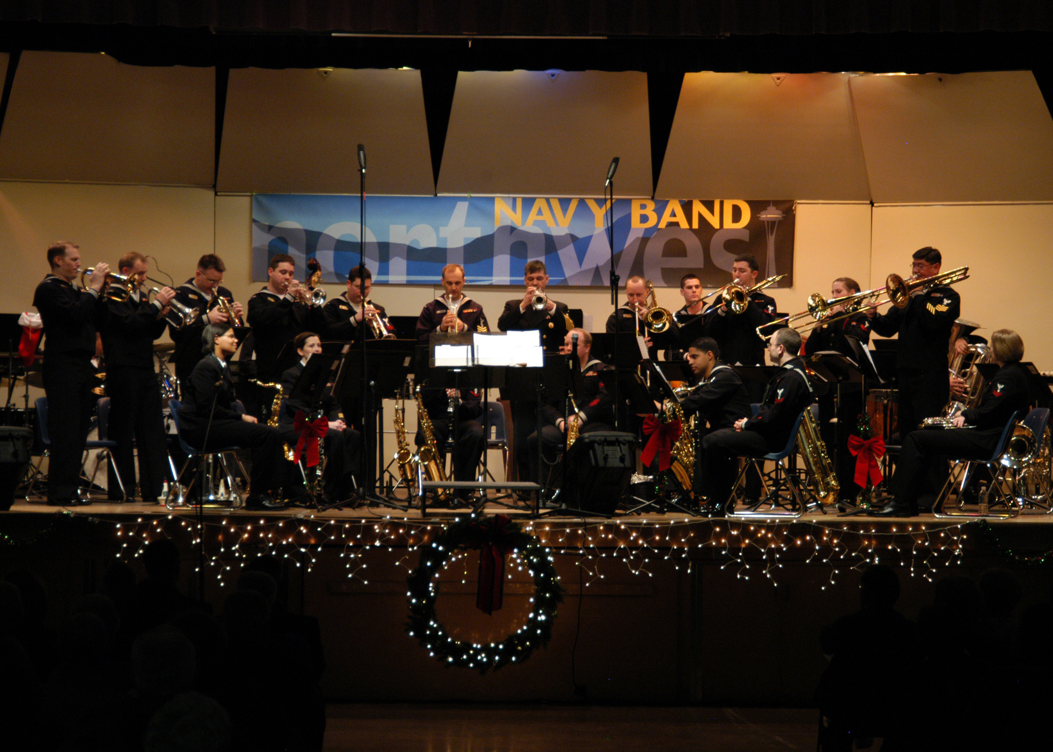 OAK HARBOR, Wash. (Dec. 10, 2007) Navy Band Northwest (NBNW) Big Band, "Cascade," plays "Holly and the Ivy/God Rest Ye Merry Gentlemen‚" at the "Holly, Jolly Holiday‚" concert held in Parker Hall of Oak Harbor High School. The free, all ages event was the fourth annual performance by NBNW in Oak Harbor for the holiday season and featured many classic songs as well as humorous skits by the members. U.S. Navy photo by Mass Communication Specialist 2nd Class Tucker M. Yates (Released)